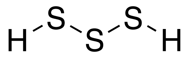 Structure of trisulfane